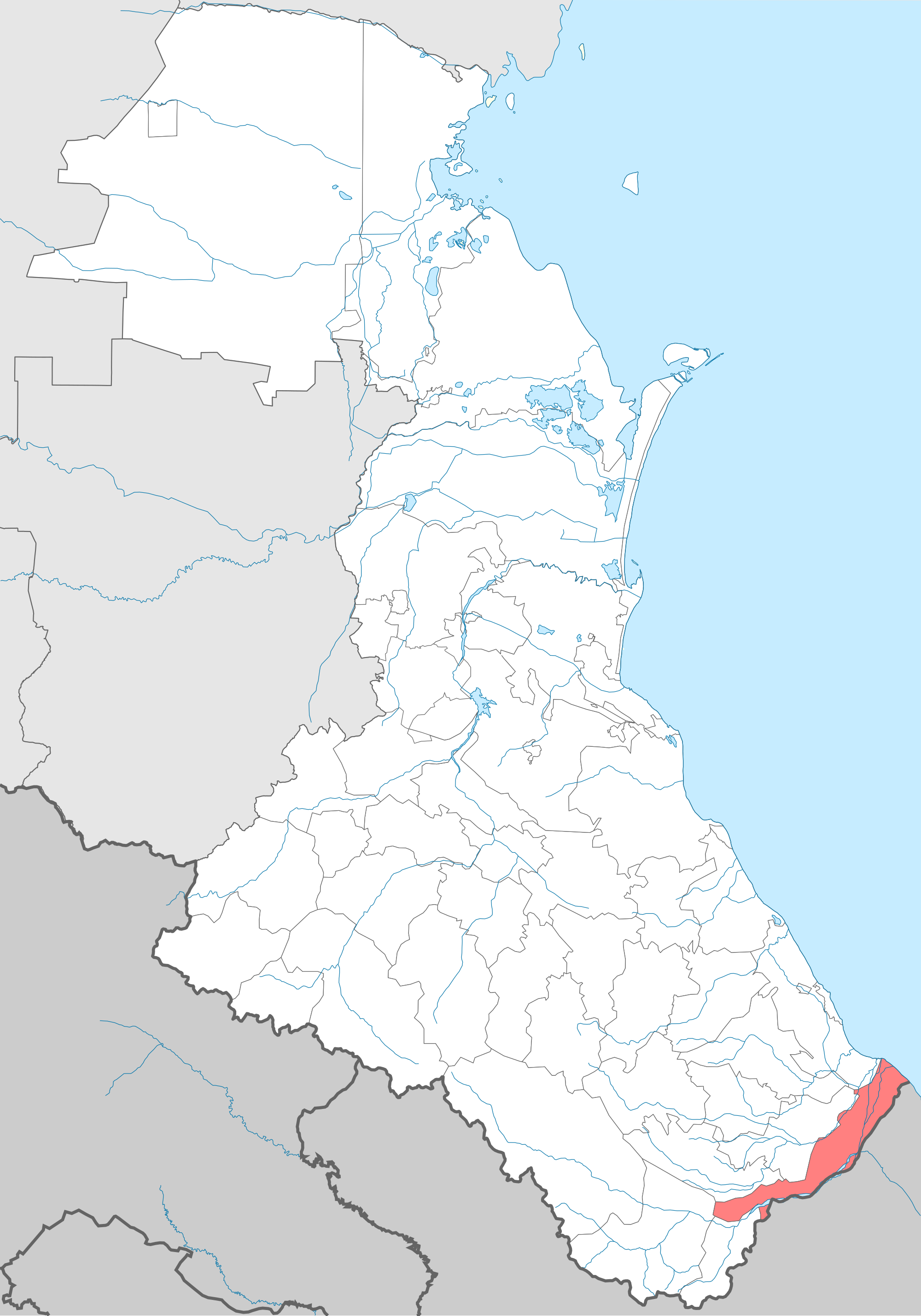 Magaramkentsky district locator map